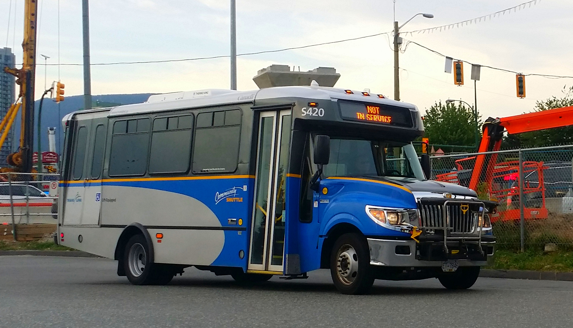 2012 International AC series shuttle bus S420 at Coquitlam Station in 2014